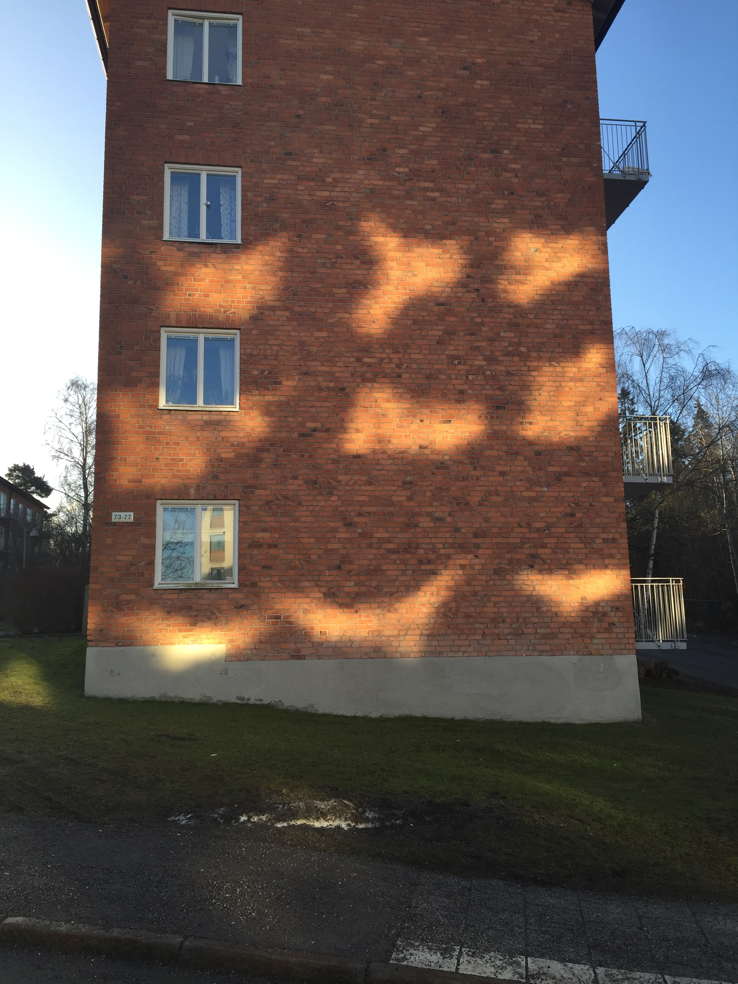 Windows reflecting sunlight on a house wall.